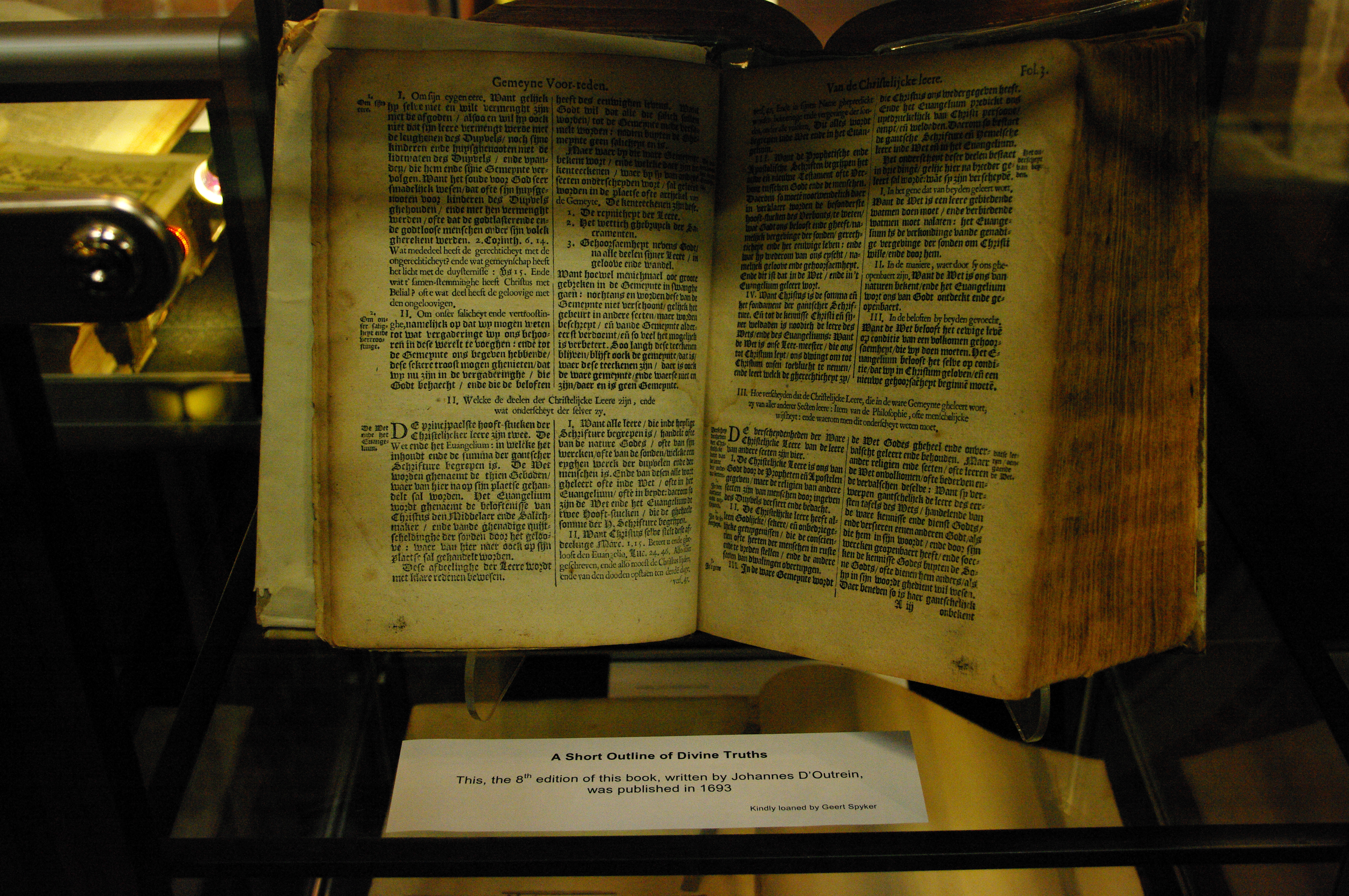 Photographs taken during Heritage Day Perth Western Australia Divine Truths written by Johannes d'Outrein, 8th edition published 1693